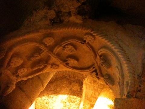 stuc du 5/7 ème siècle